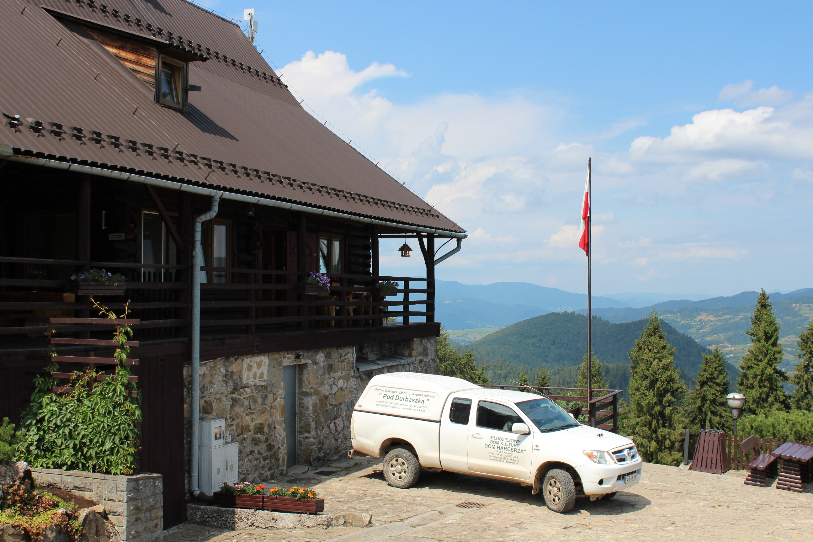 Pod Durbaszką Mountain hut